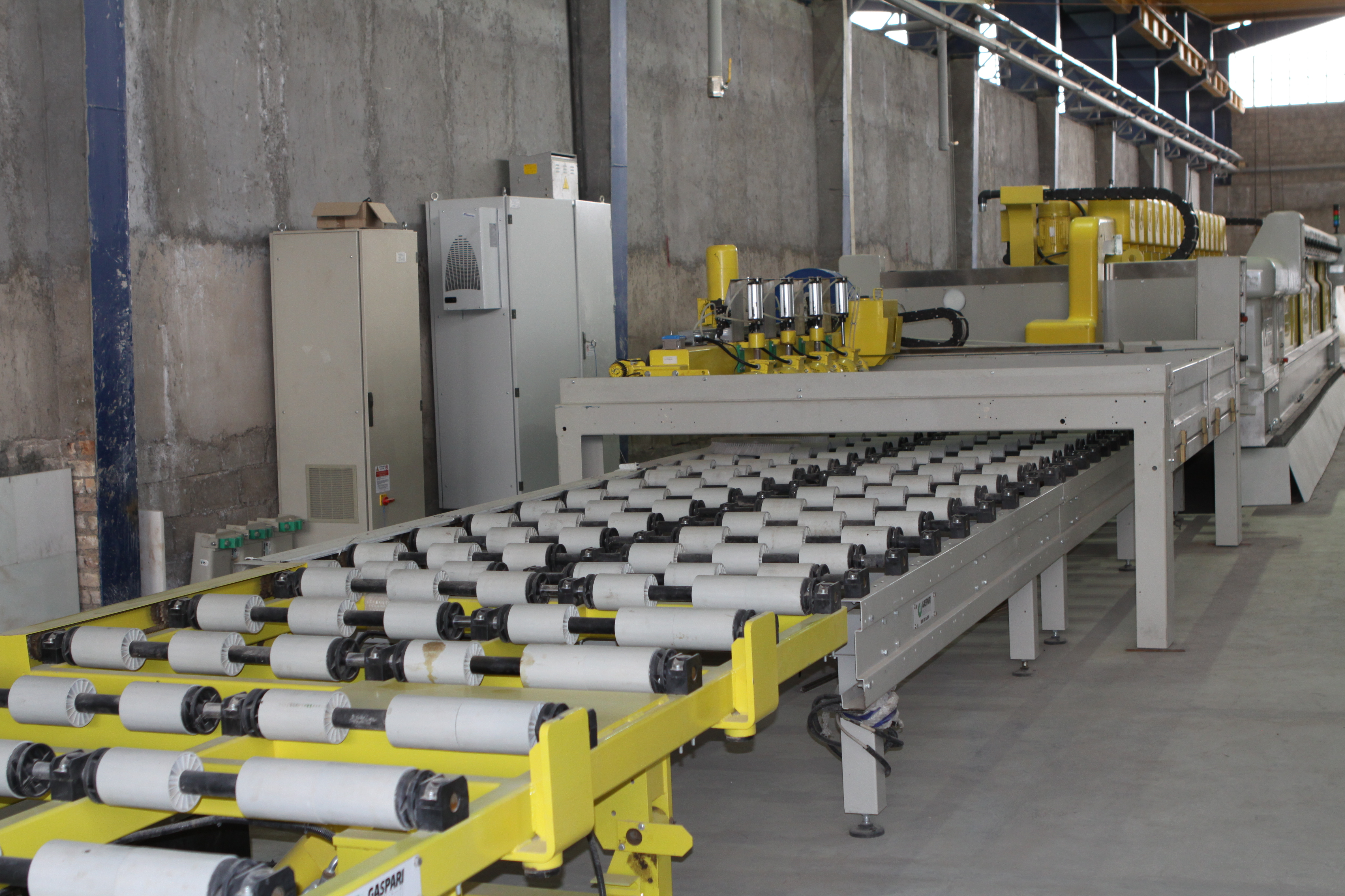 Inside the Doost Marble Processing Factory in Herat, Afghanistan.